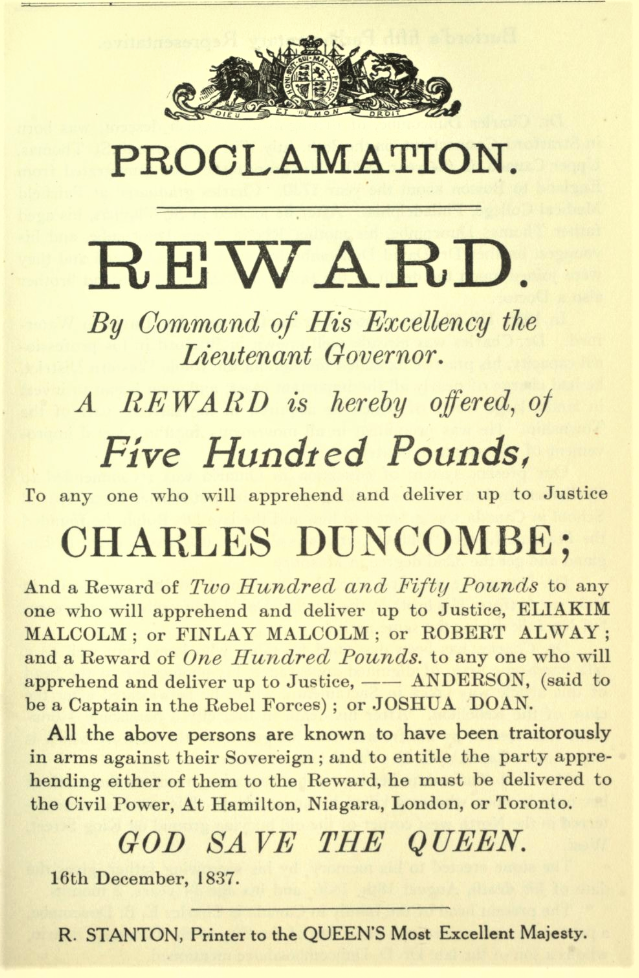 derivative work created by cropping and enhancing a page image from The early political and military history of Burford. by Muir, Robert Cuthbertson; Publication date 1913. The text on the page attempts to recreate the appearance of a reward poster that was printed by the Queen's Printer, Robert Stanton, in 1837